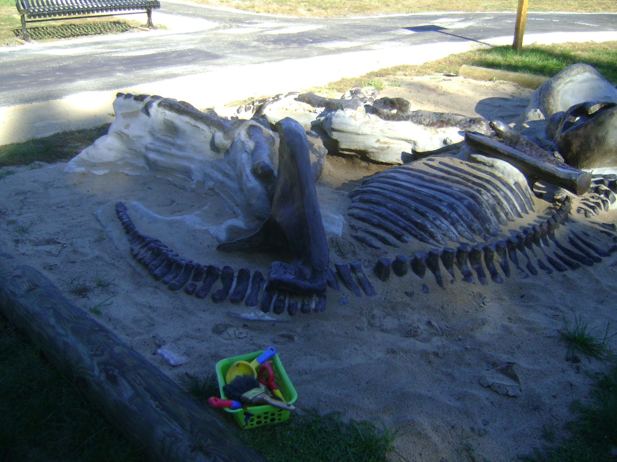 Mastadon representation exhibit at the Michigan Heritage Park